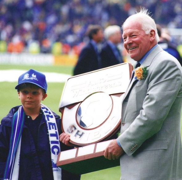 Current Wigan Athletic Chairman and his Grandfather David Whelan, previous Wigan Athletic chairman